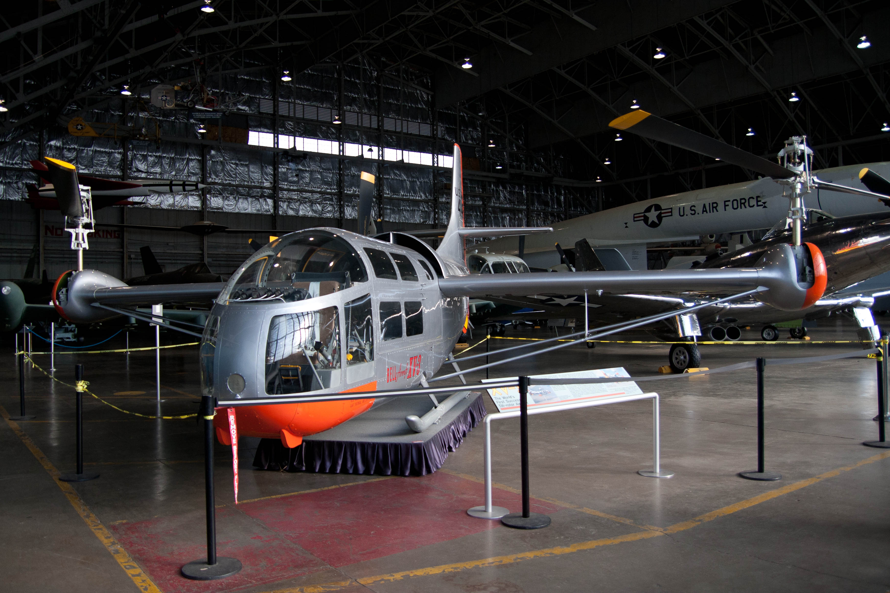 Photo credit - Maria Trusty. Taken in the Presidential and Research & Development Gallery on Wright Patterson Air Force Base.